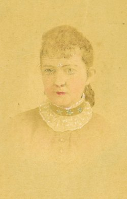 Kate Lee Ferguson, wife of Samuel Wragg Ferguson. Three-quarter length portrait, seated, facing front.